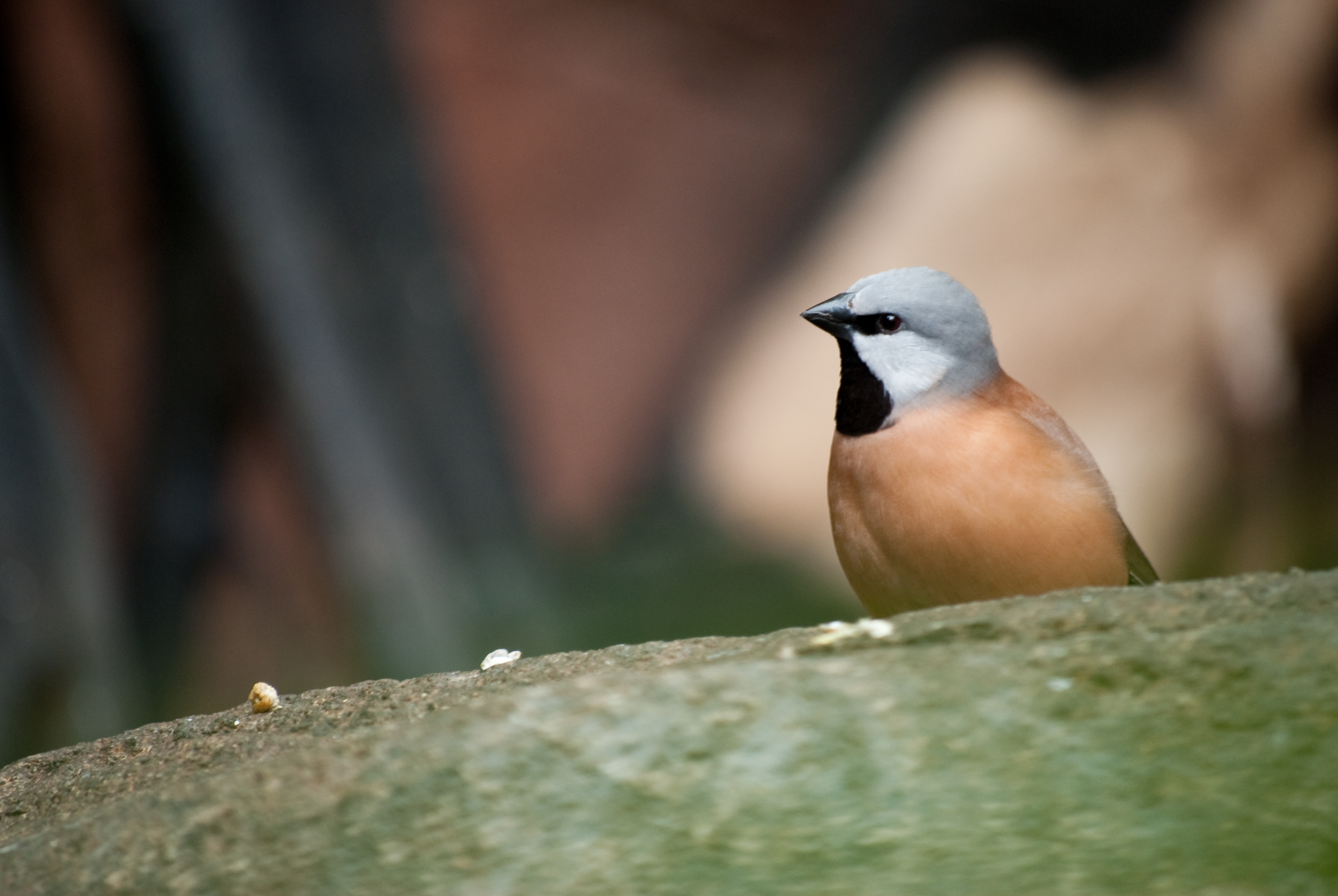 A Black-throated Finch (Poephila cincta) at Baltimore Aquarium, Baltimore, Maryland, USA.